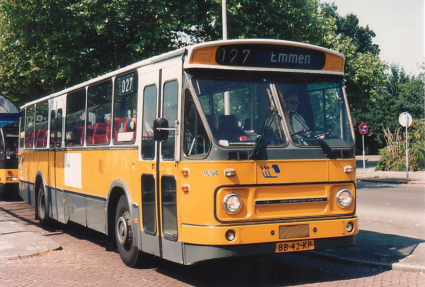 Leyland-Den Oudsten LOB bus (#1694) in Hoogeveen, the Netherlands.